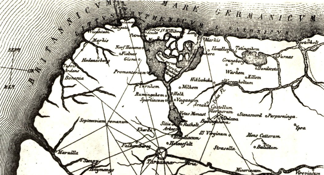 Map of Sinus Itius, former Aa river delta